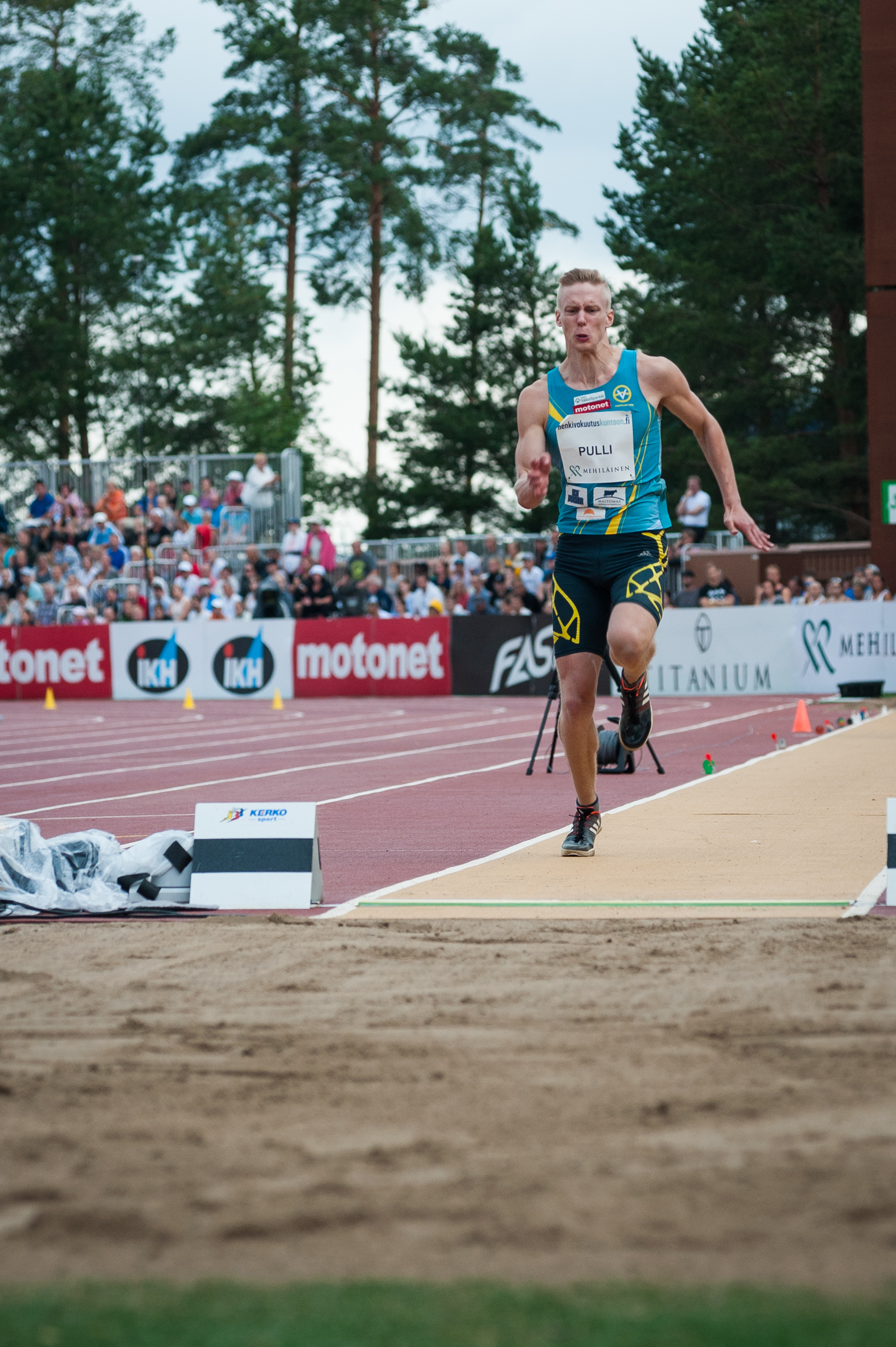 Men's long jump competition at the 2018 Kalevan Kisat, the Finnish championships in athletics, in Jyväskylä, Finland.